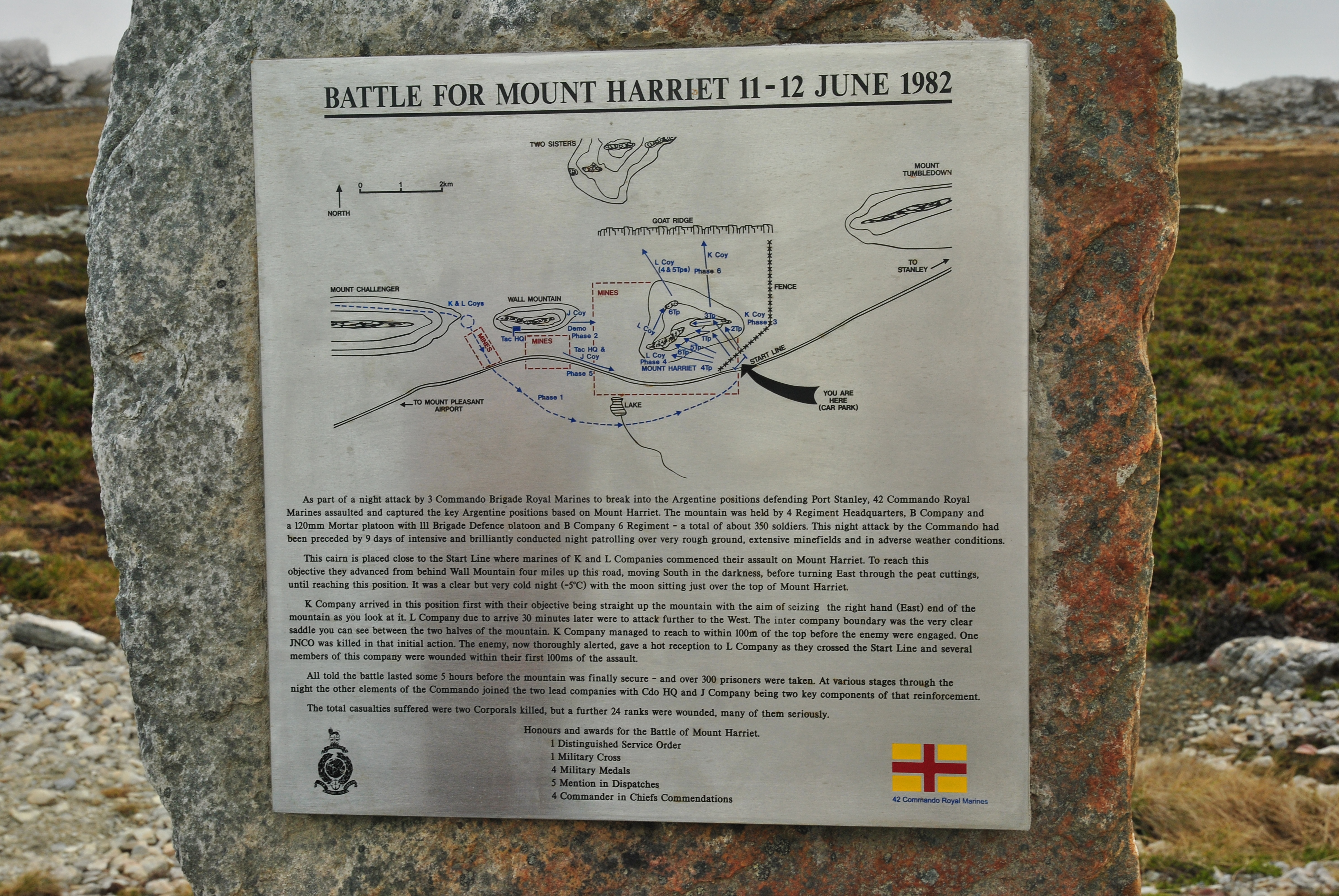 Plaque in the Falkland Islands. "Battle for Mount Harriet 11-12 June 1982".